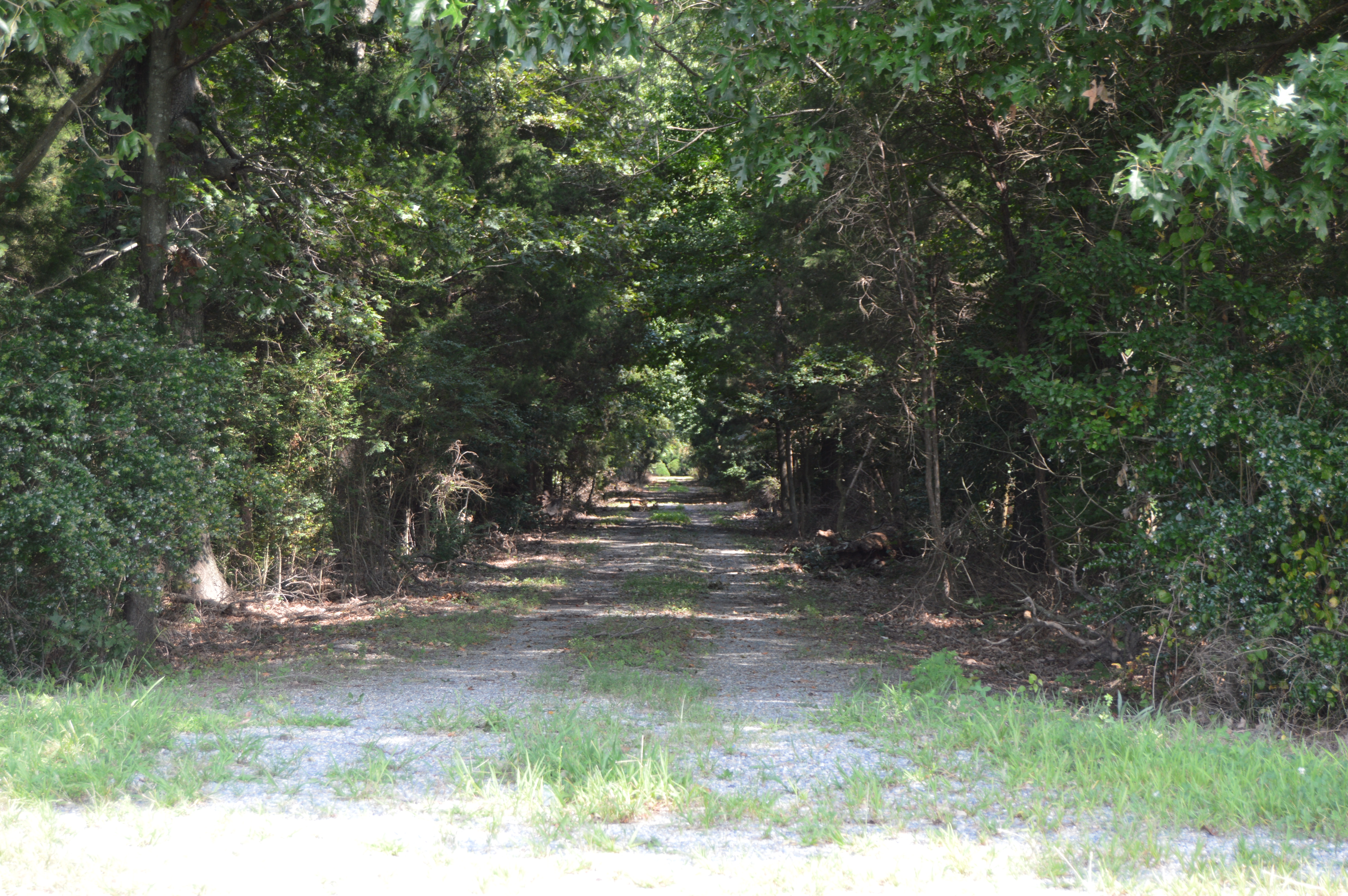 Entrance to the Wheatland estate, located on Lewisetta Road northeast of Callao in Northumberland County, Virginia, United States. The plantation is listed on the National Register of Historic Places.